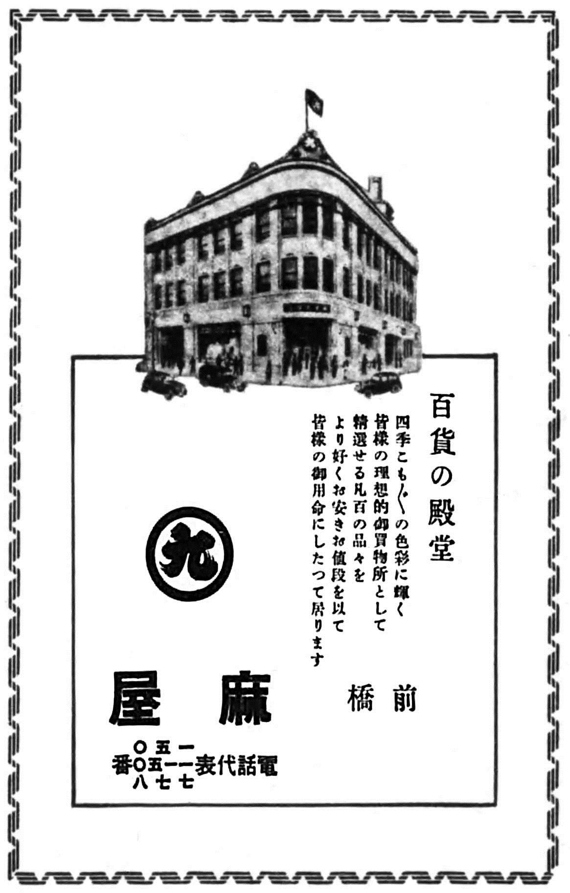 Asaya department store ad (1936).